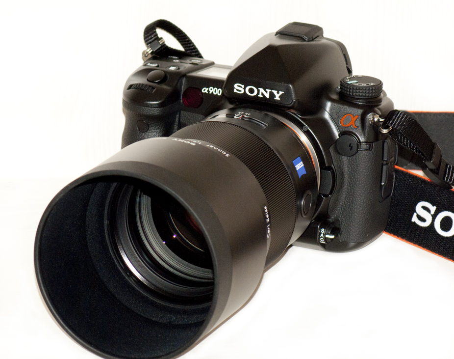 A picture of the Sony Alpha 900 D-SLR and Zeiss 135mm f1,8 edited with Photoshop.